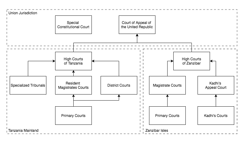 Schematic of the structure of the court system of Tanzania